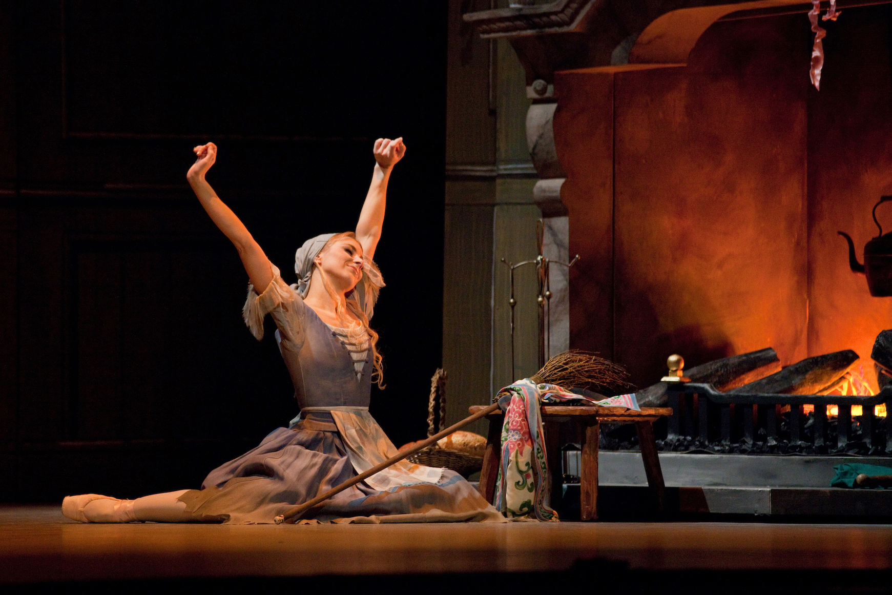 "Cinderella" by Frederick Ashton, Polish National Ballet, Aleksandra Liashenko as Cinderella